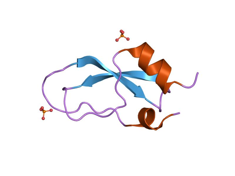 Cartoon representation of the molecular structure of protein registered with 1kth code.